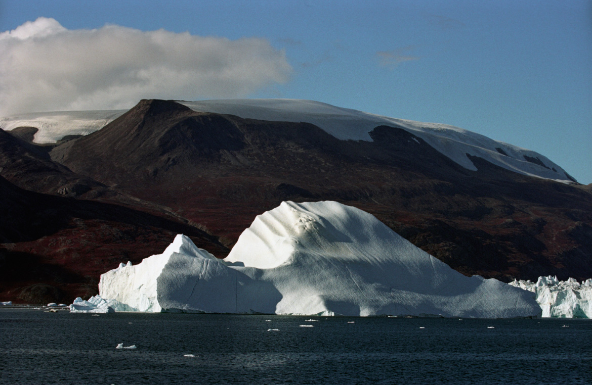 Greenland, Rhode Fjord